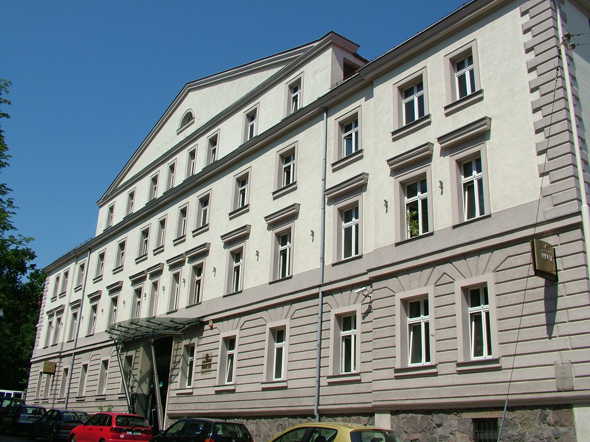 Szczecin - Old prussian barracks on Świętego Ducha street